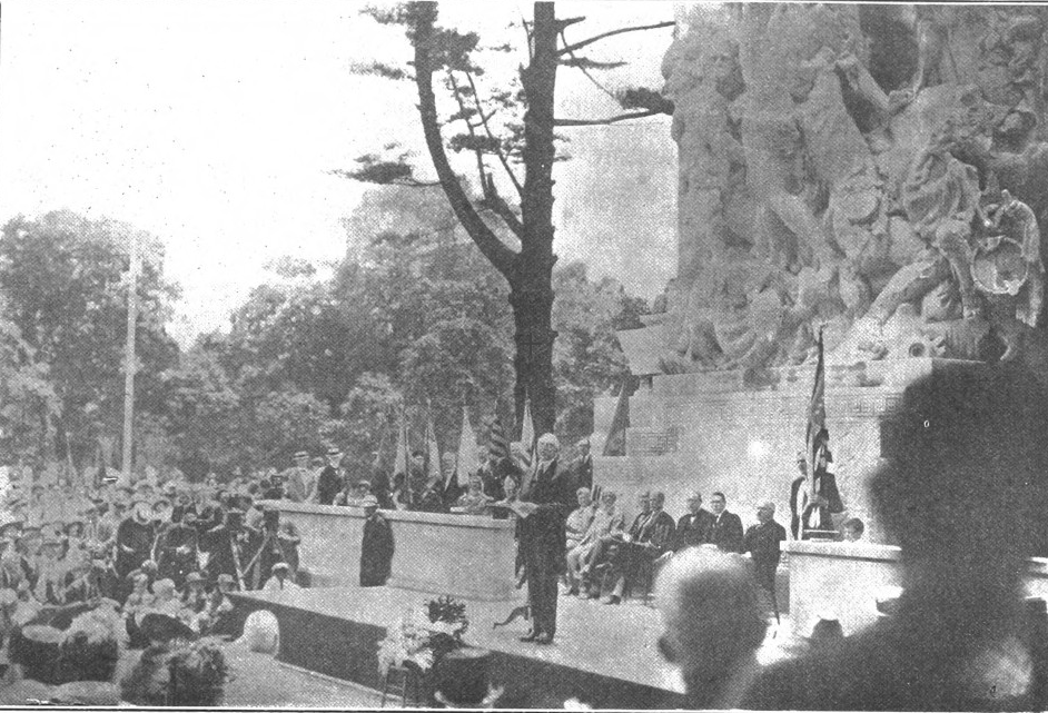 President Warren G. Harding dedicated the Princeton Battle Monument, June 9, 1922